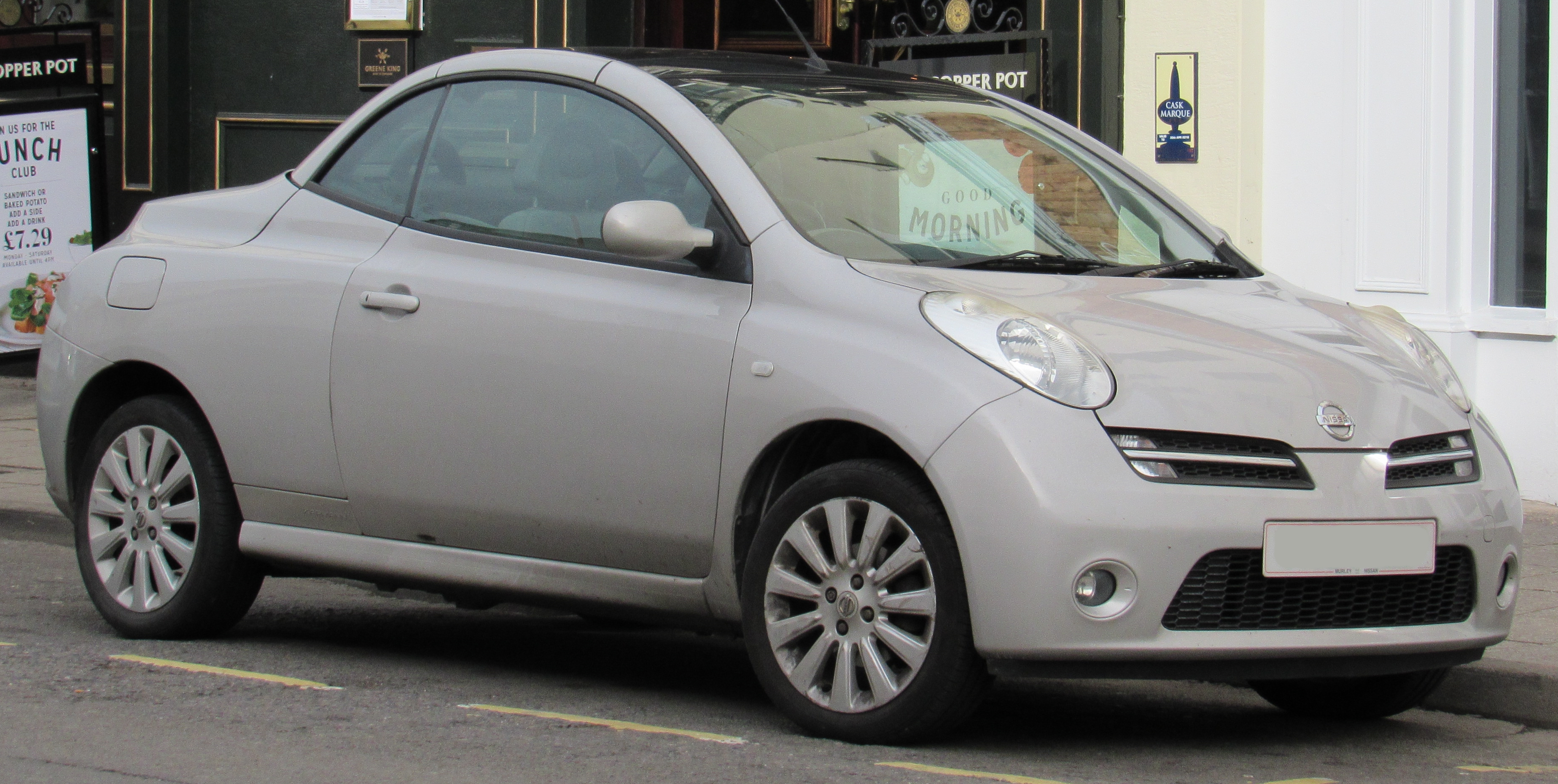 2007 Nissan Micra C+C Active Luxury 1.4 Front